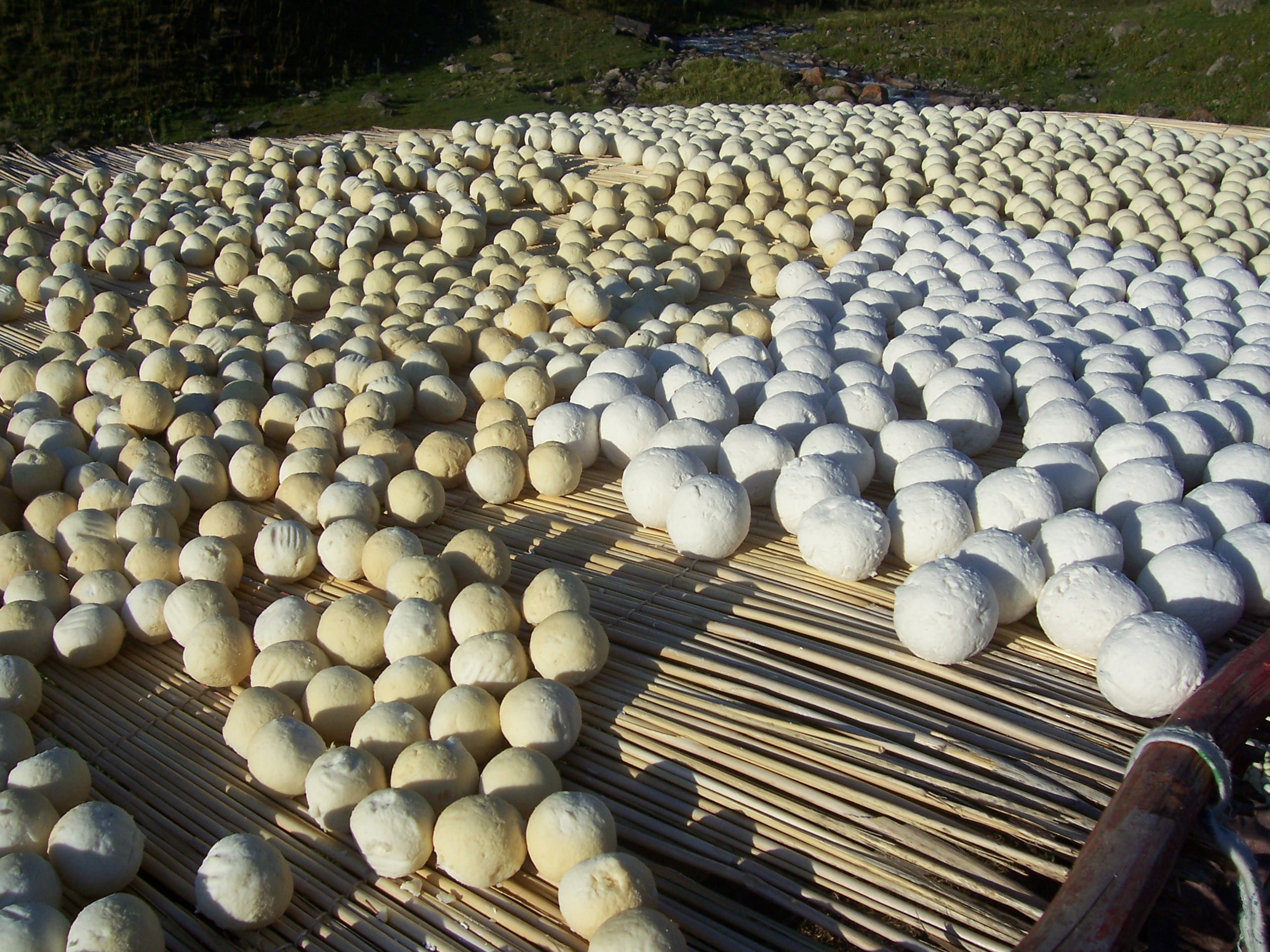 KURUT Traditonnal cheese of Kyrgyzstan.